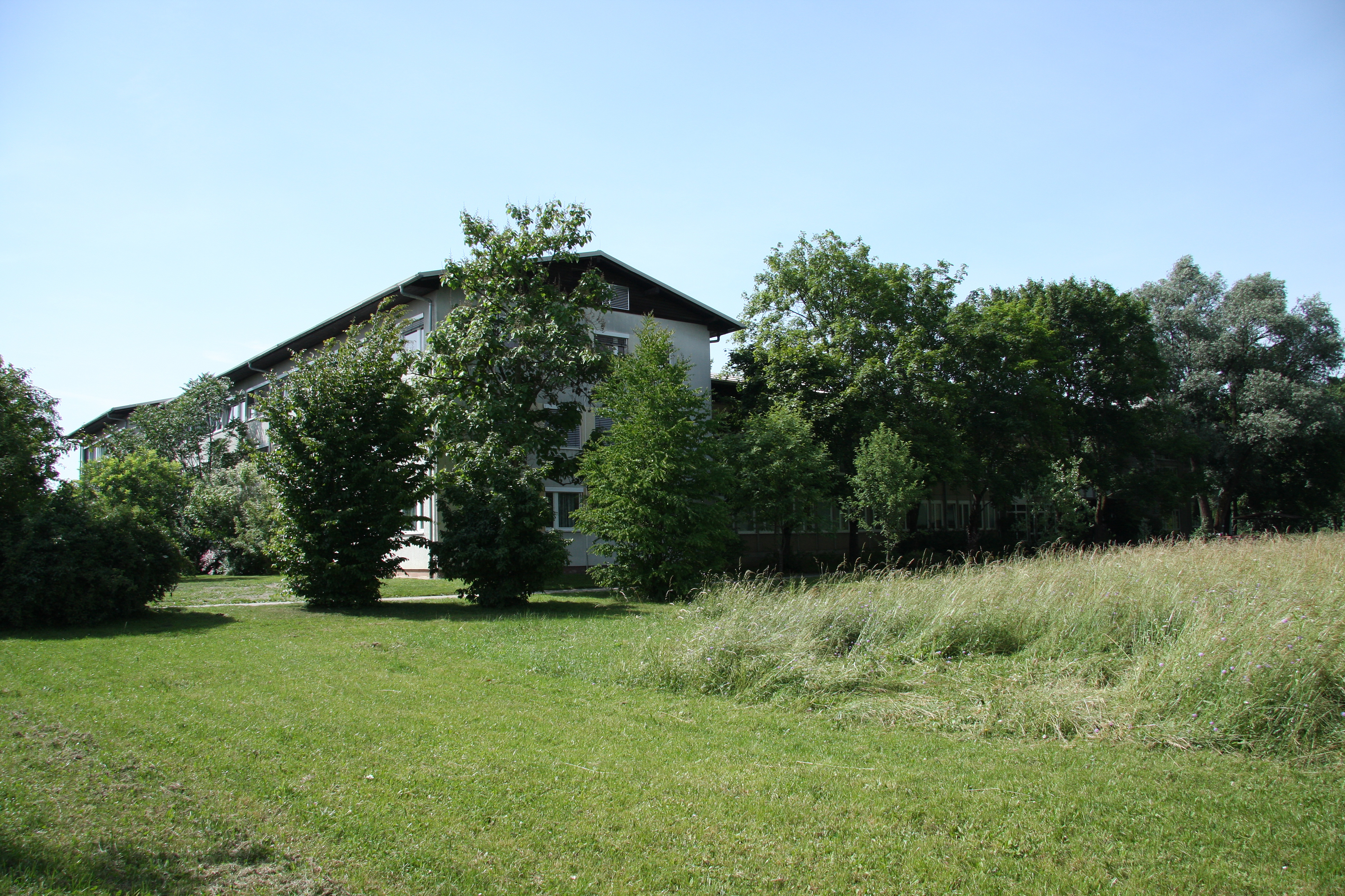 One of the buildings of the Biotechnical faculty in Ljubljana (Slovenia), housing departments of agronomy and landscape architecture.